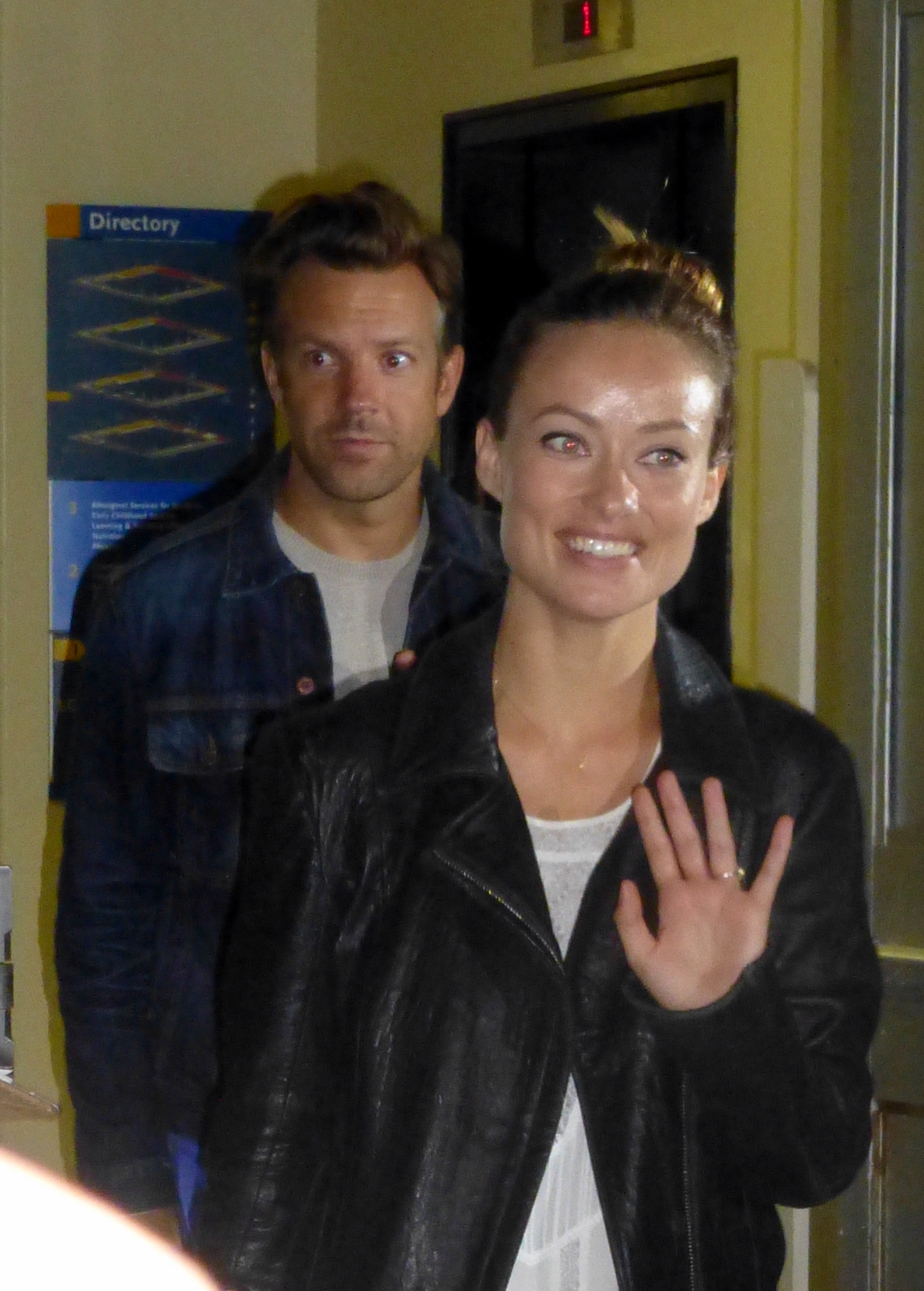 Jason Sudekis and Olivia Wilde at the Reitman Read for Boogie Nights, Toronto Film Festival 2013